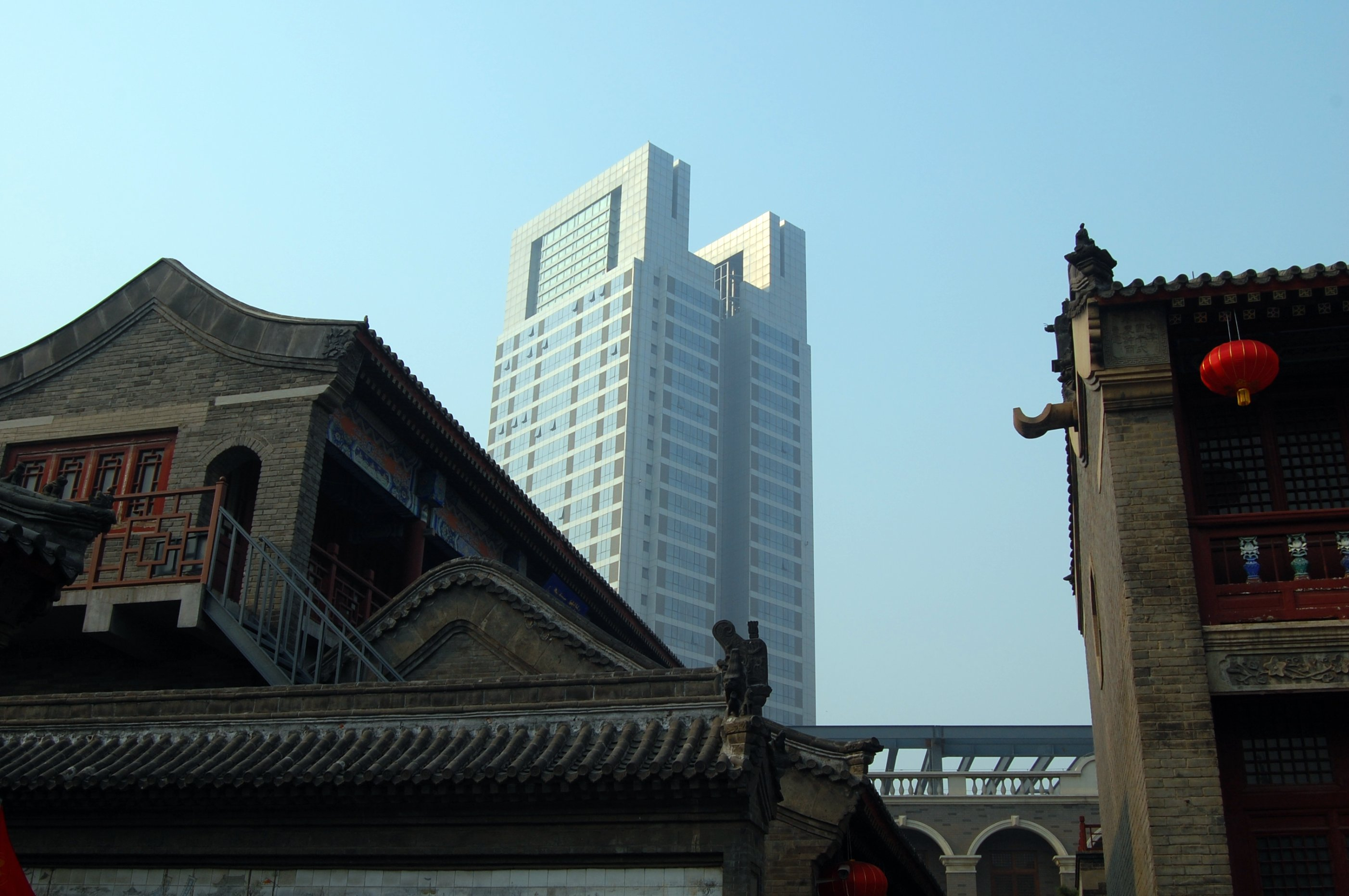 October 2010